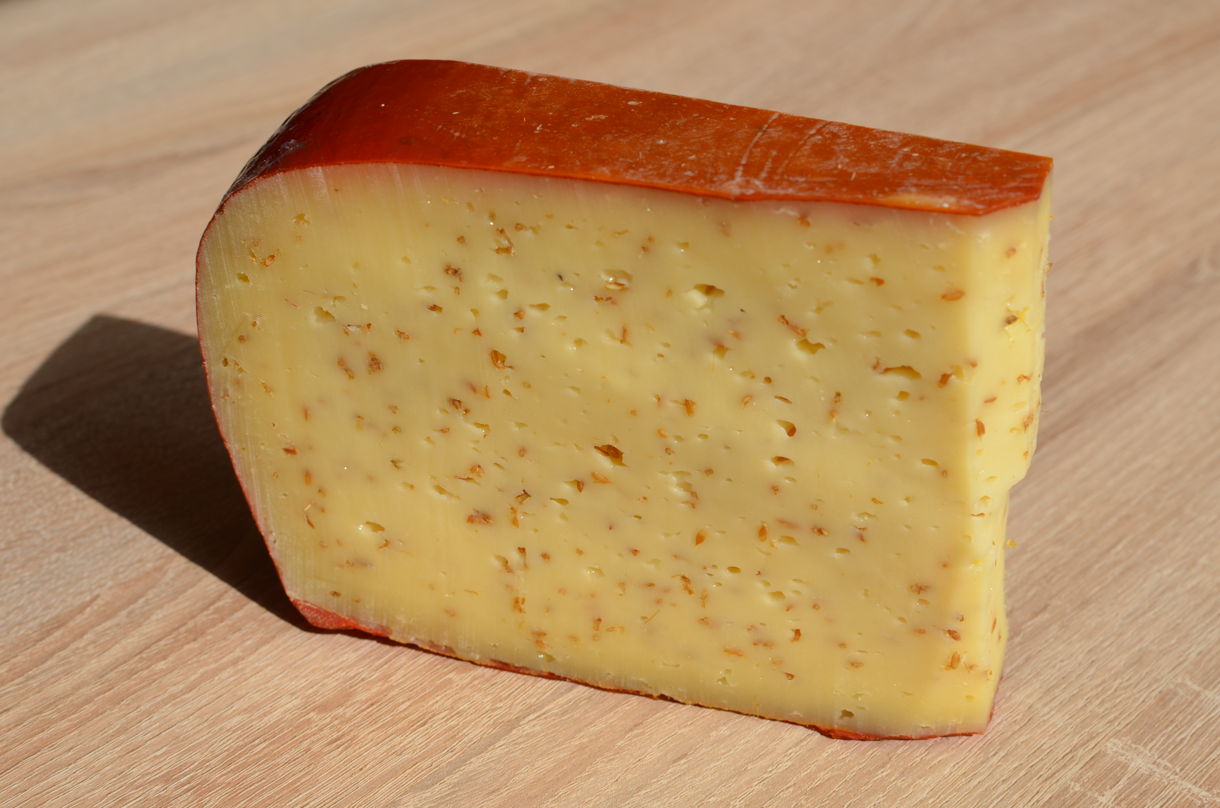 A cut of Leyden cheese. The cumin seeds present in the cheese are clearly visible.